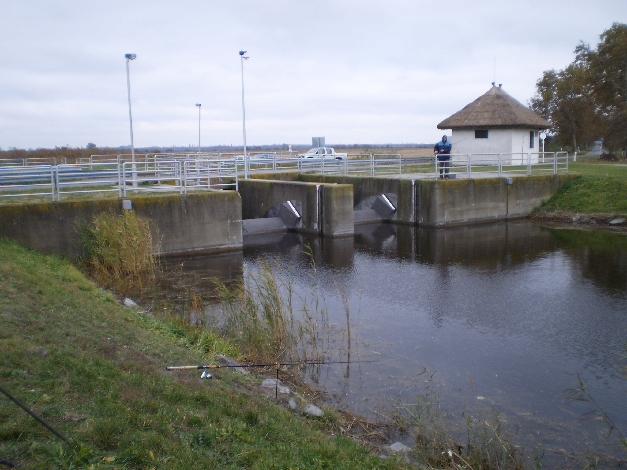 Hanság-főcsatorna (Main canal of Hanság)